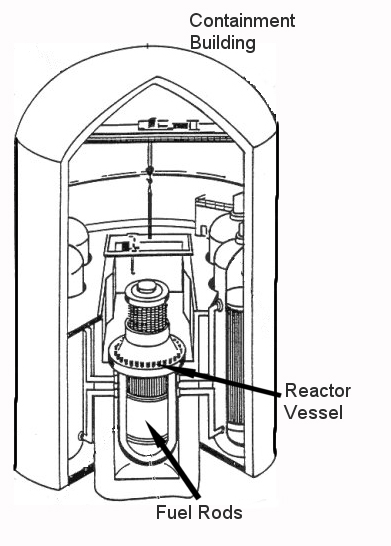 NRC Generic drawing of Containment Building and Basic Internals